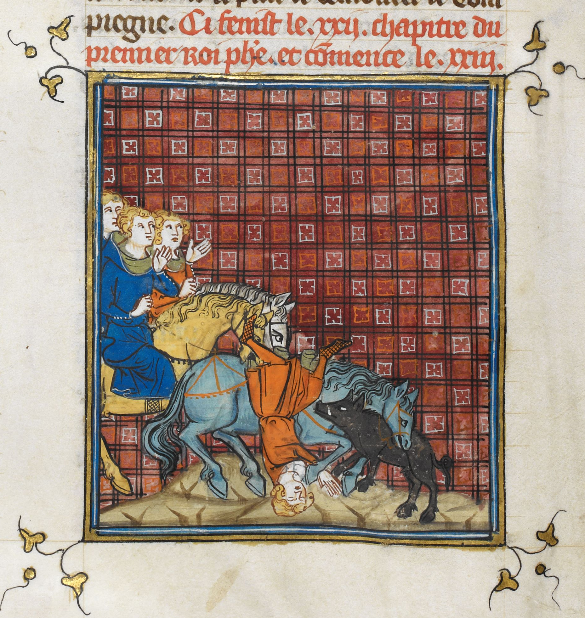 The young king Philip of France (1116–1131), son of King Louis VI the Fat, being killed by a boar. (British Library, Royal 16 G VI f. 309)